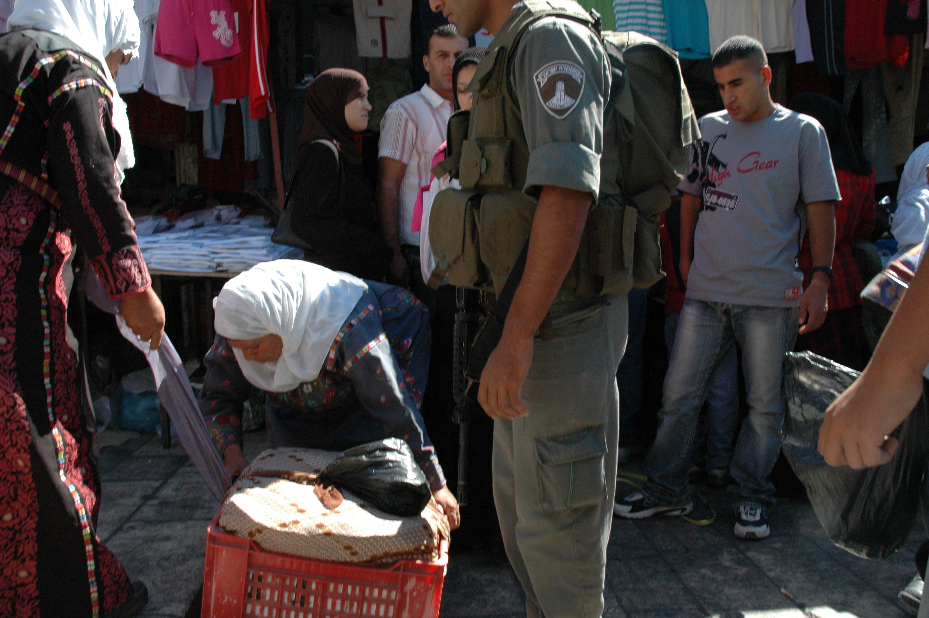 An Israeli policeman and a Palestinian woman in Jerusalem